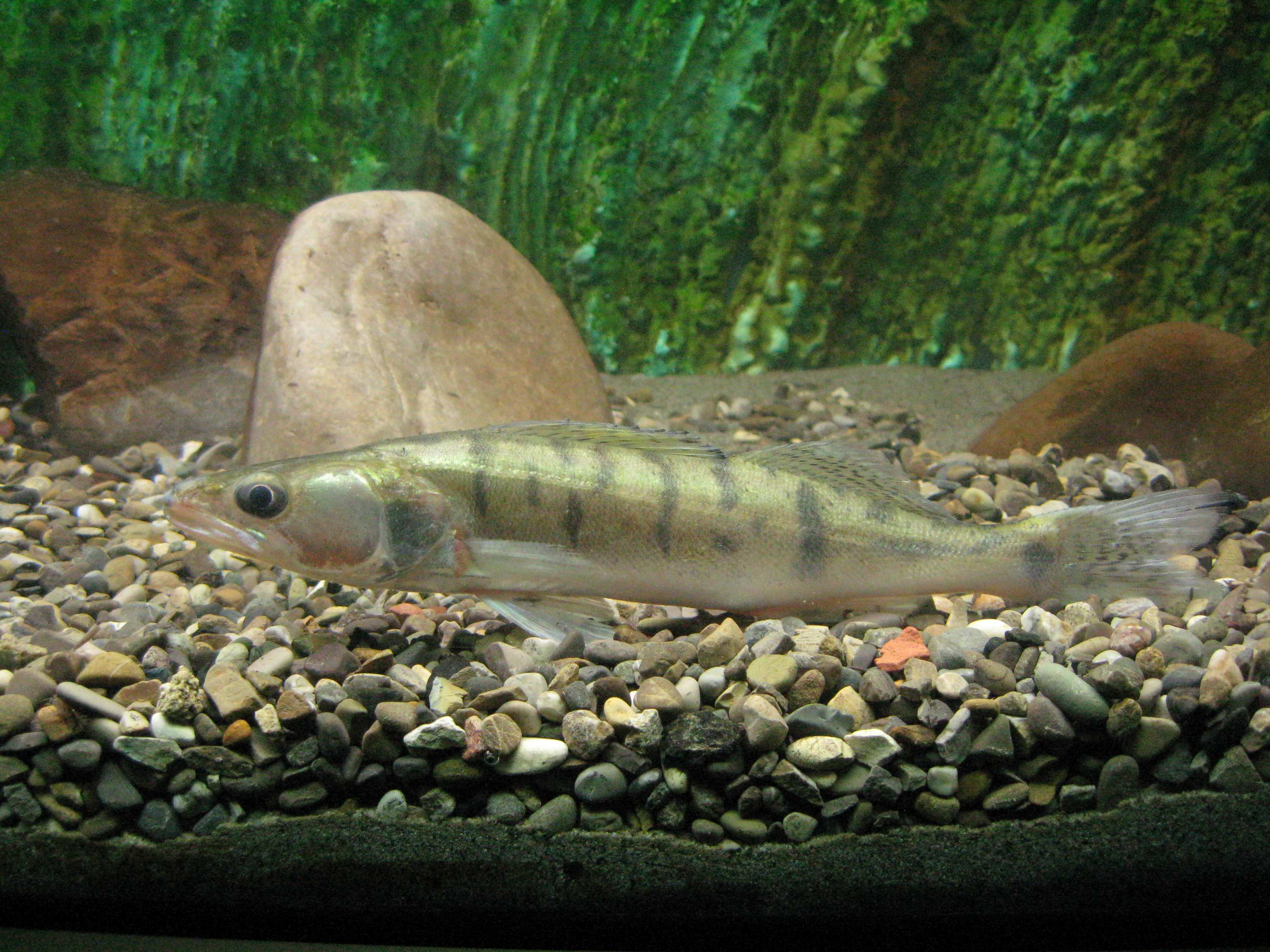 Sander lucioperca, Acquario del Po, Motta Baluffi, Cremona, Italy.